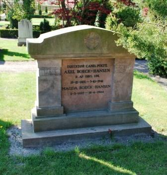 Gravestone of Axel Boeck-Hansen in Søndre Kirkegård, Aalborg